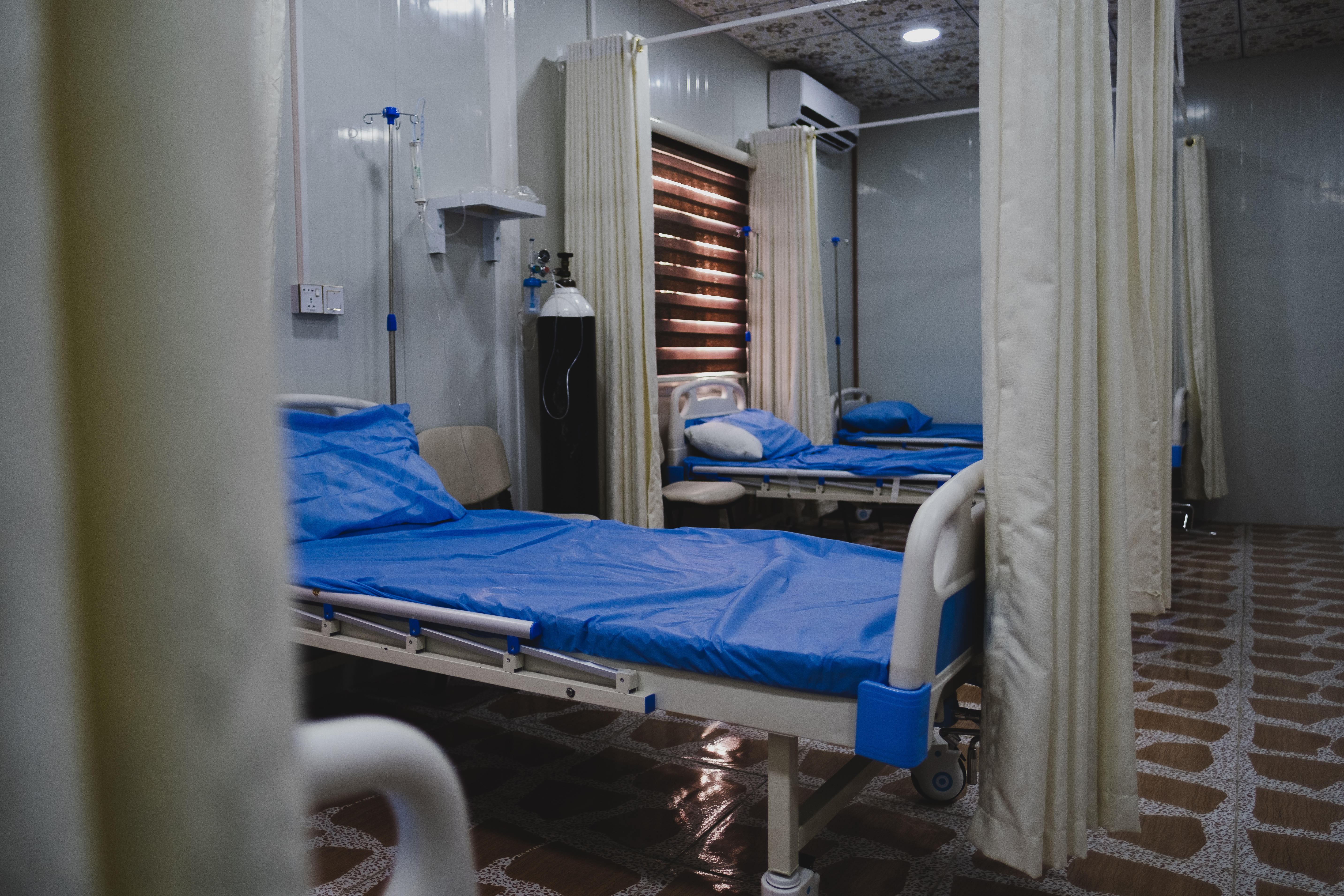 Views of the emergency room of the recently renovated hospital in April of 2019 the city center of Shingal